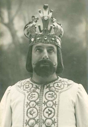 Postcard of baritone Henri Albers (1866-1926) as Arthus in Ernest Chausson's opera Le roi Arthus, Théâtre de la Monnaie, Brussels, published circa 1903